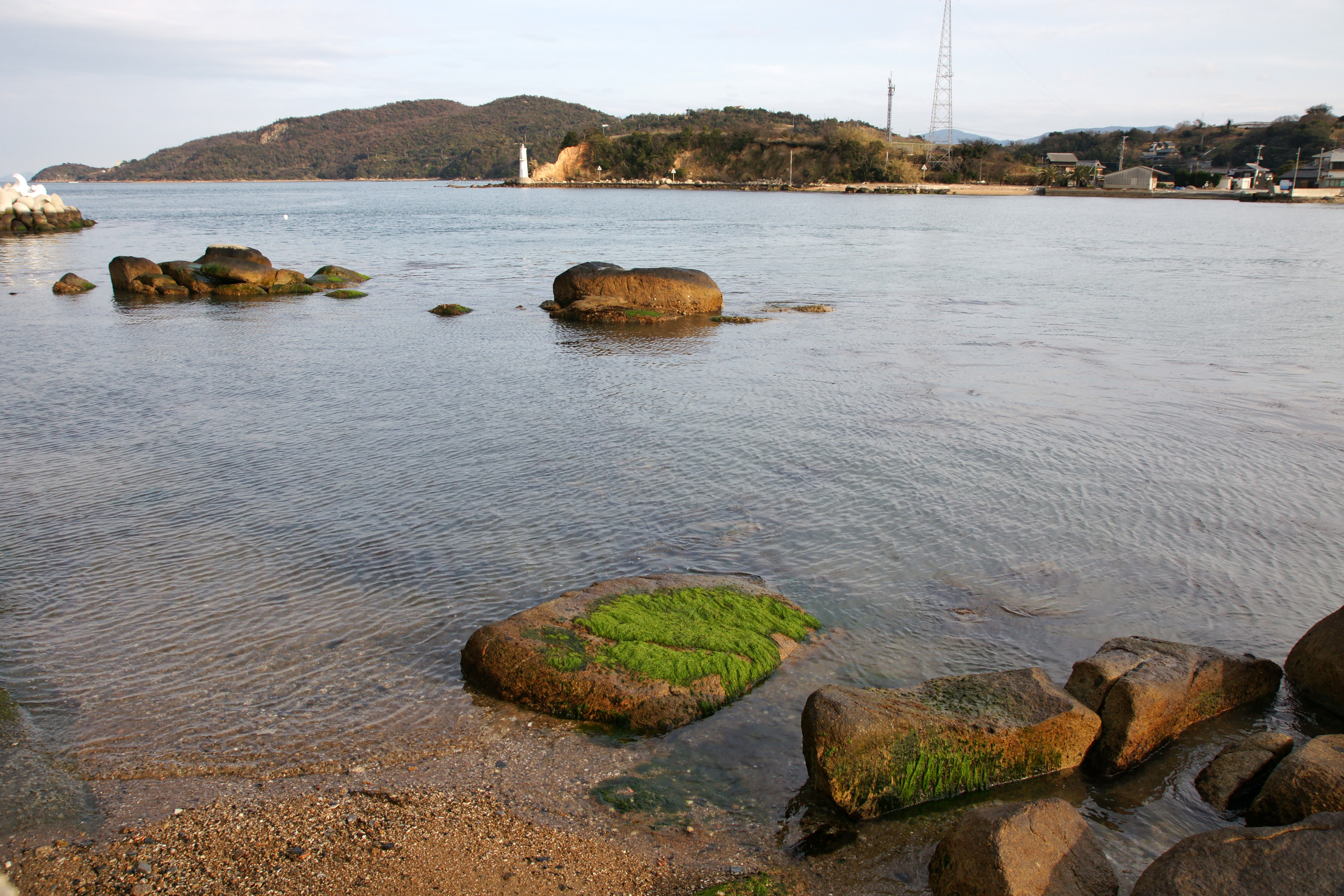 Karakoto-no-seto in Ushimado, Setouchi, Okayama prefecture, Japan